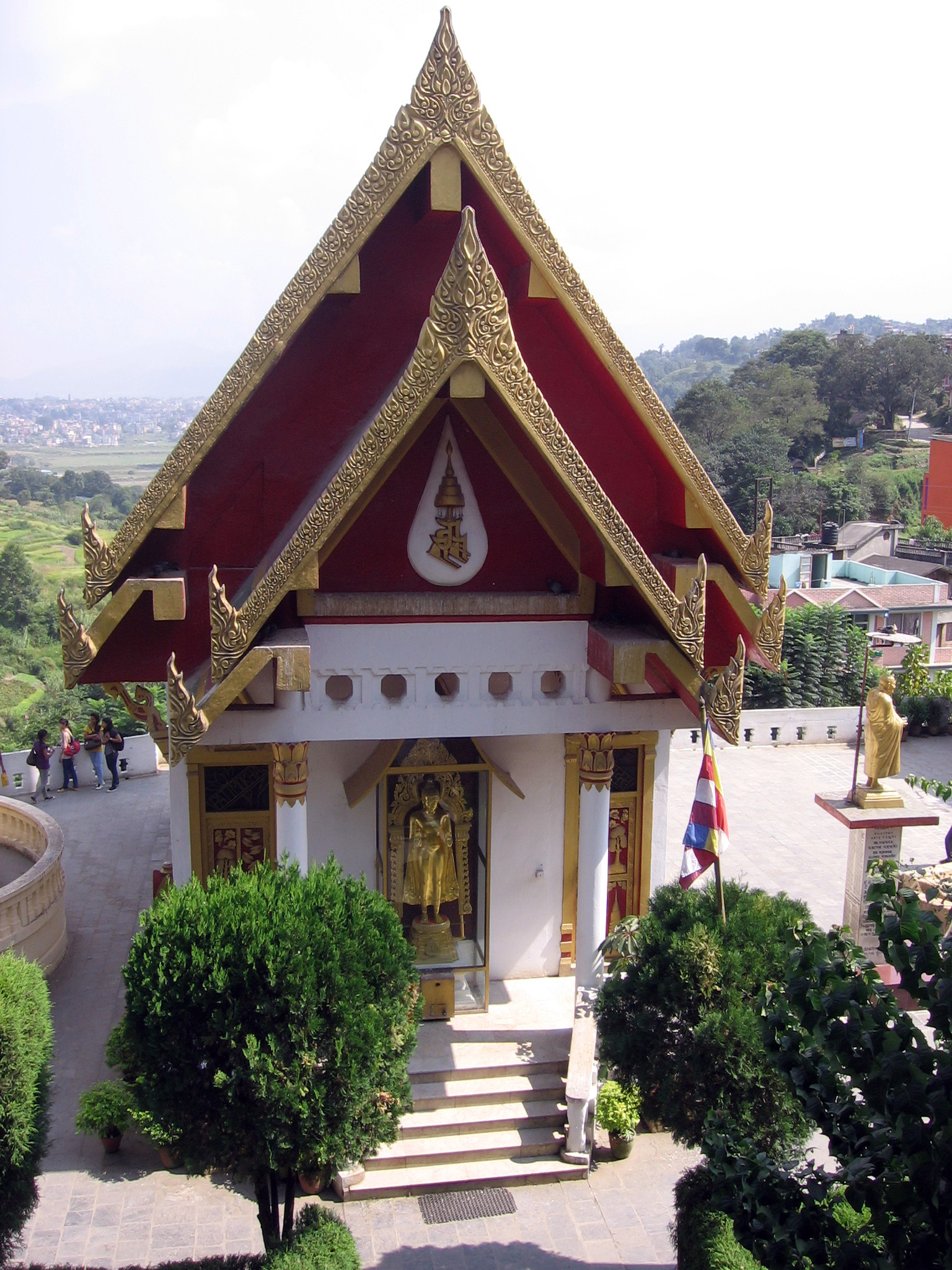 Theravada Buddhist monastery Shri Kirti Vihara of Thai design in Kirtipur, Kathmandu.